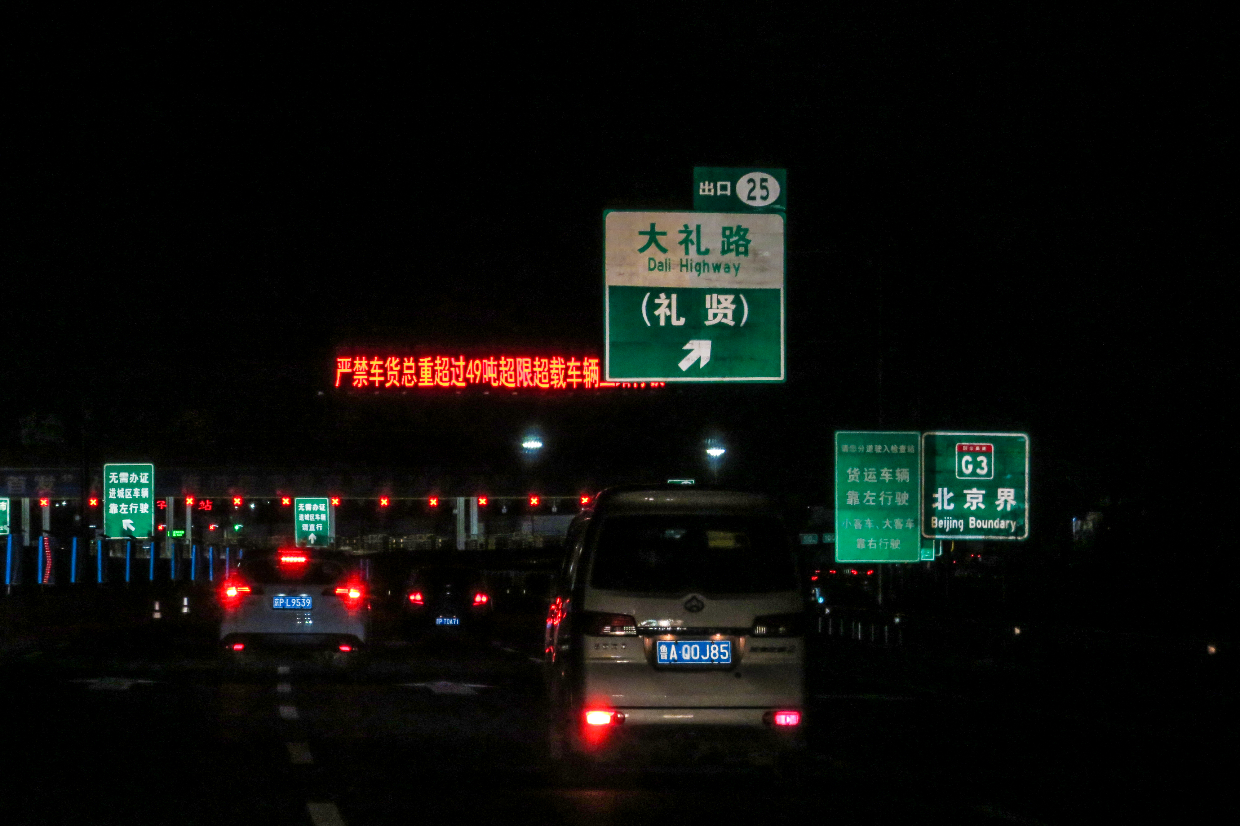 Newly-opened Beijing section of G3 Jingtai, fresh for months.